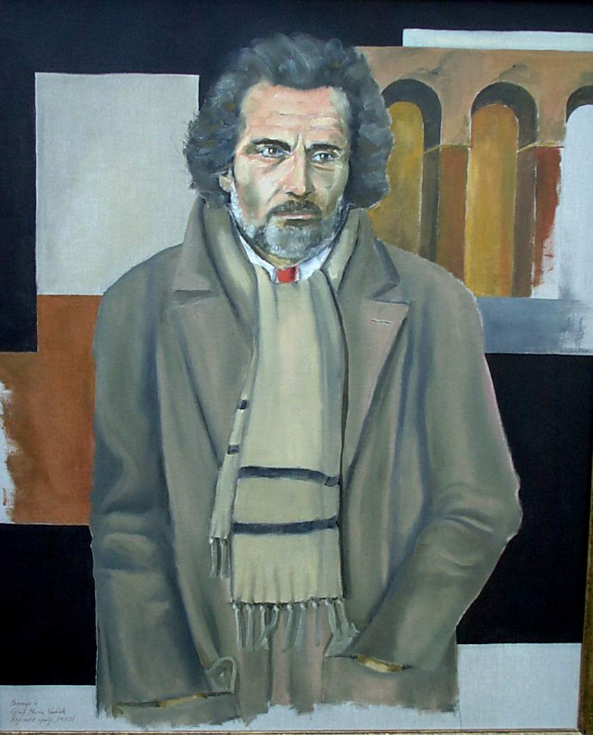 Painting on canvas